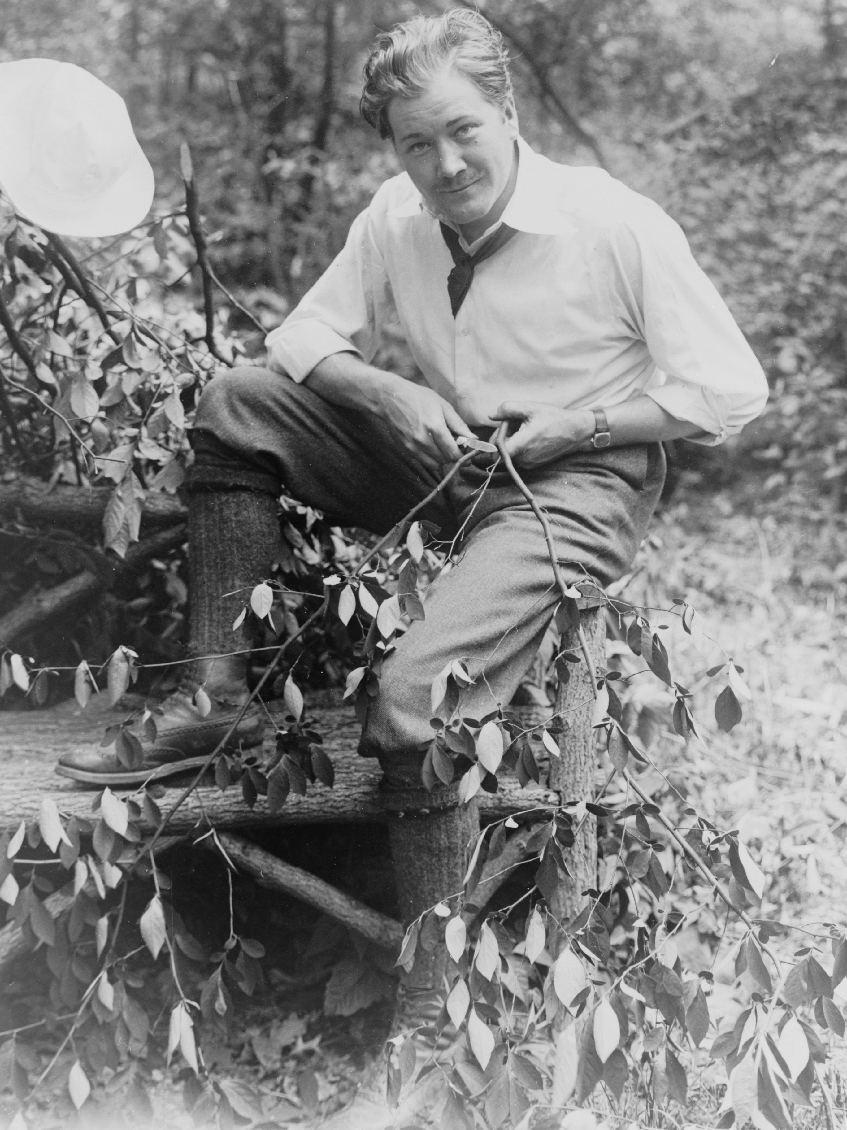 John Charles Thomas, singer, full-length portrait, sitting on log bench, whittling a small branch